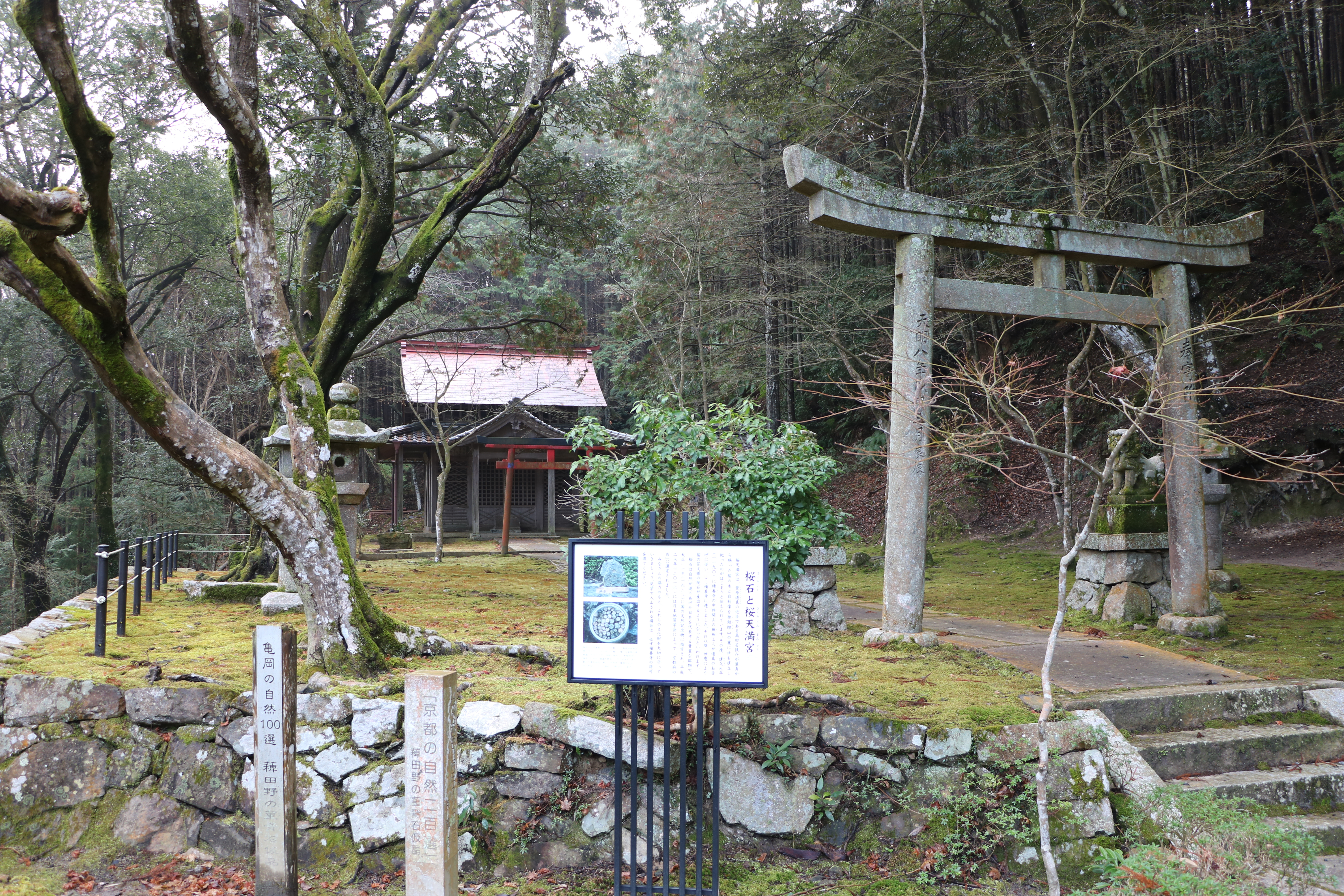 Sakura Tenmangu Kameoka, kyoto